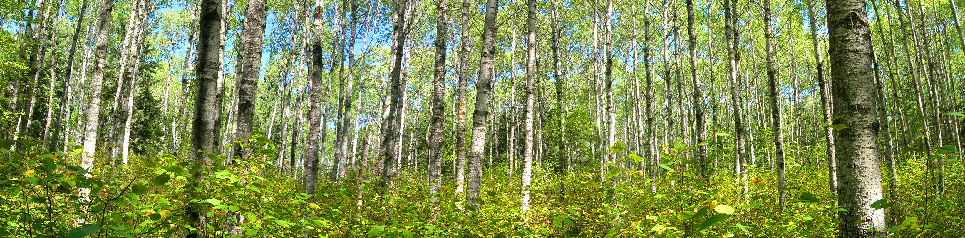 Taken on the Loon Island trail in Riding Mountain National Park, Manitoba. (Oh what fun it is to manually align photos of almost identical trees.)